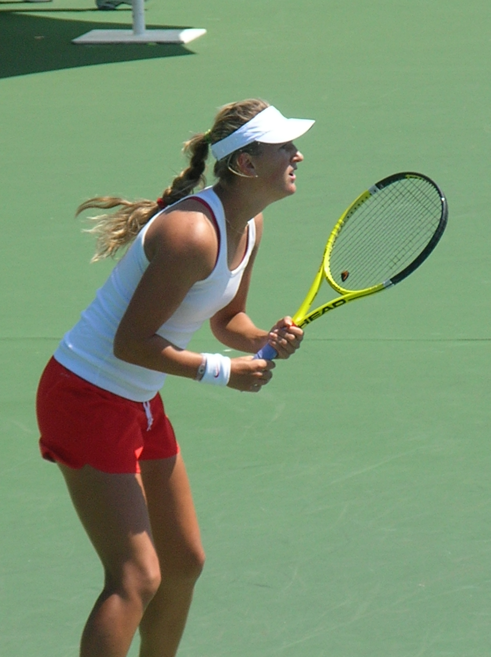 Victoria Azarenka practicing at the Bank of the West Classic at Stanford.